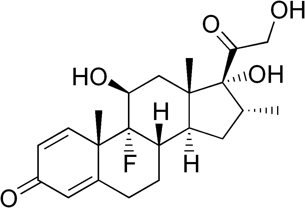 chemical structure of dexamethasone